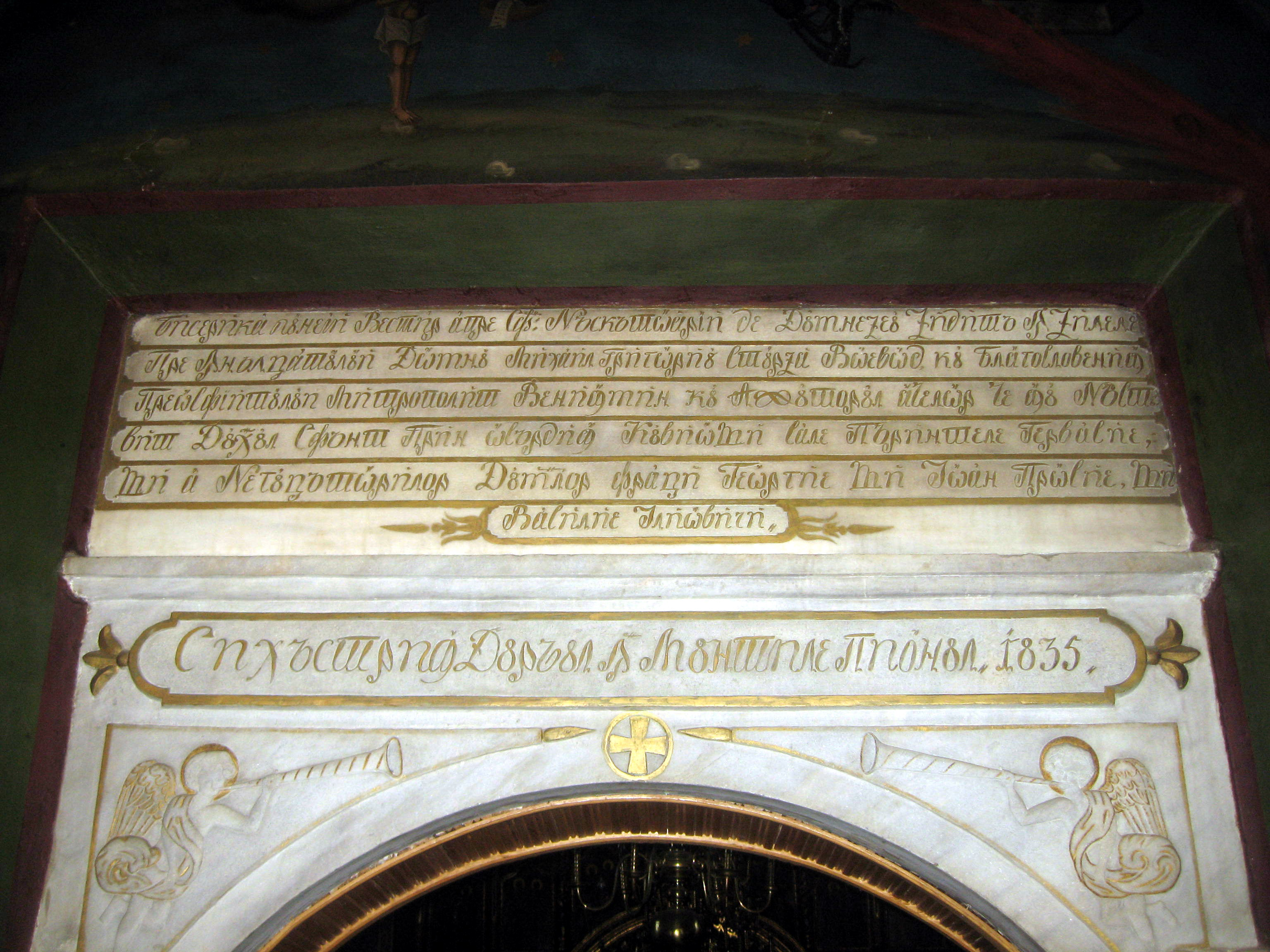 Durau Monastery, Romania